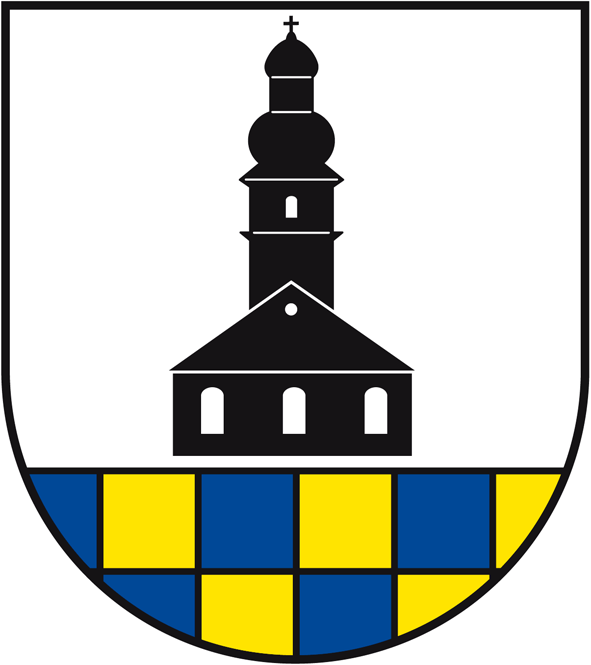 Coat of arms of Kappel